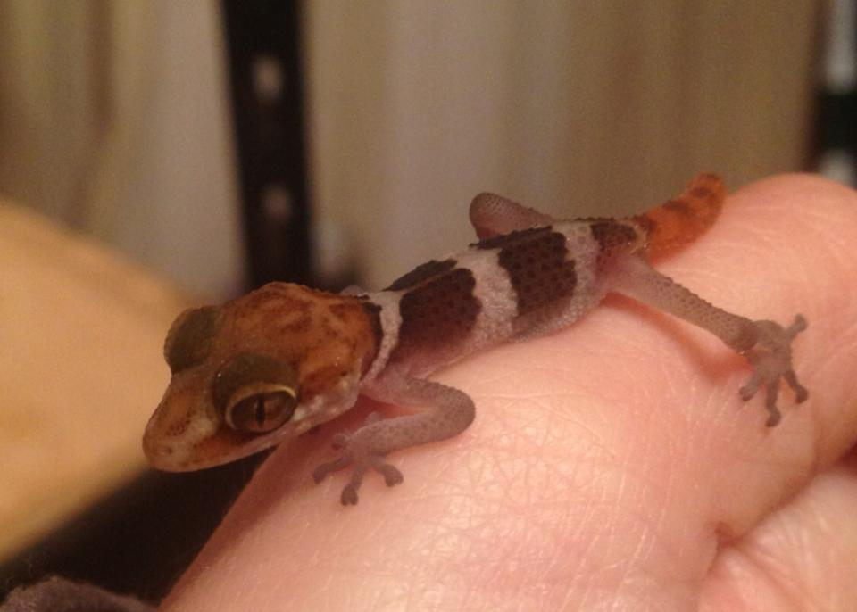 Photo of a juvenile Party Gecko (P. Lohatsara)